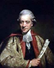 An organist and musicologist, Charles Burney was the author of the monumental A General History of Music, published 1776-89, and the father of Fanny Burney, the novelist and diarist. In 1781 he wrote, 'I have lately sat for my picture to Sr. Jos. Reynolds, for my Friend Mr Thrale... who has a Library furnished with 12 or 14 portraits of persons with whom it is a great honour to be placed'. Thrale's library was at his home in Streatham and Burney's portrait hung between Reynolds's portraits of Baretti and Burke. He is depicted holding a musical score and wearing his gown as a Doctor of Music (Oxford, 1769).